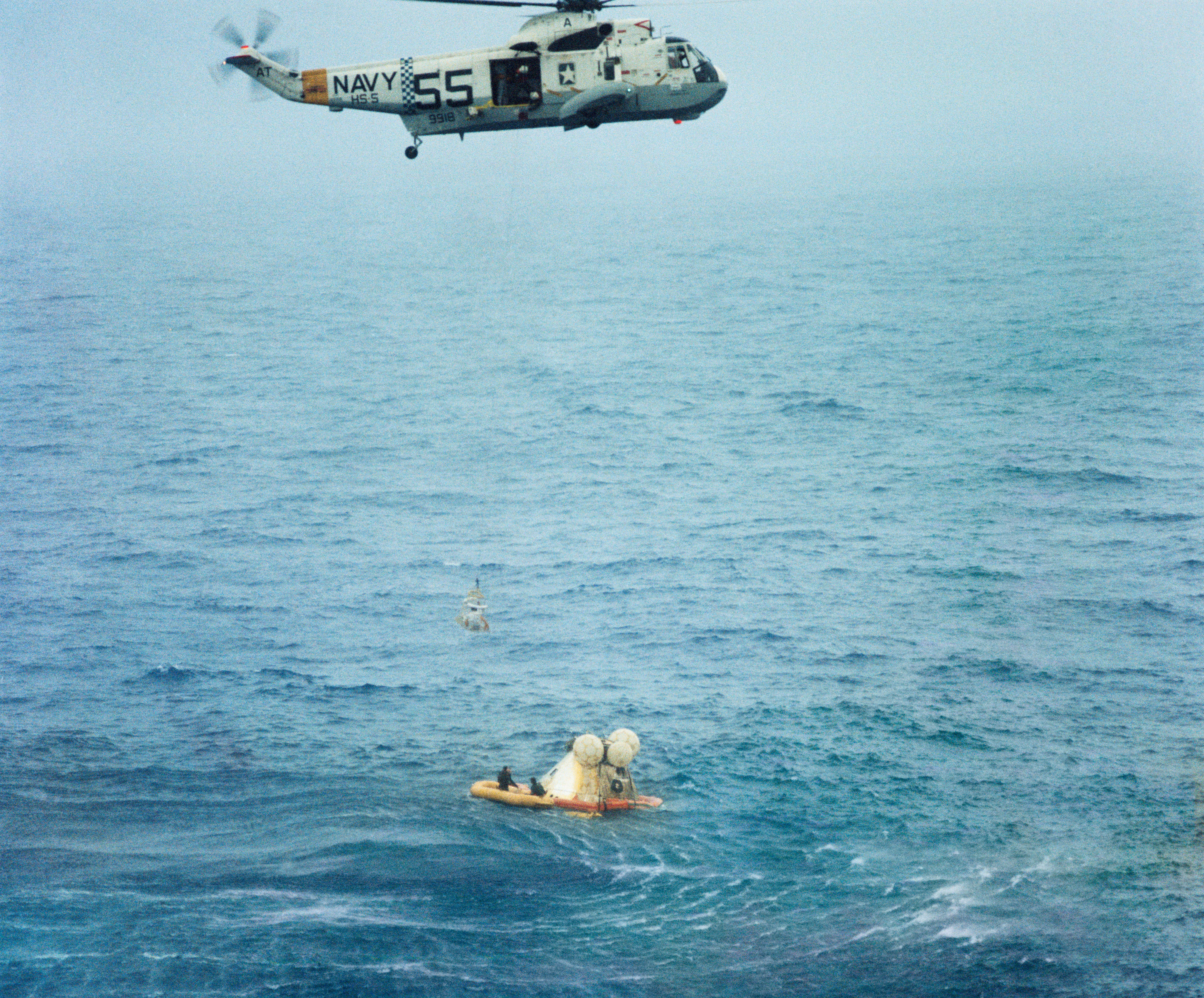 A member of the Apollo 7 crew is hoisted up to a U.S. Navy Sikorsky SH-3A Sea King recovery helicopter (BuNo 149918) from Helicopter Anti-Submarine Squadron 5 (HS-5) during recovery operations. The Apollo 7 spacecraft splashed down at 07:11 hrs, 22 October 1968, approximately 200 nautical miles south-southwest of Bermuda. Recovery ship was the aircraft carrier USS Essex (CVS-9).